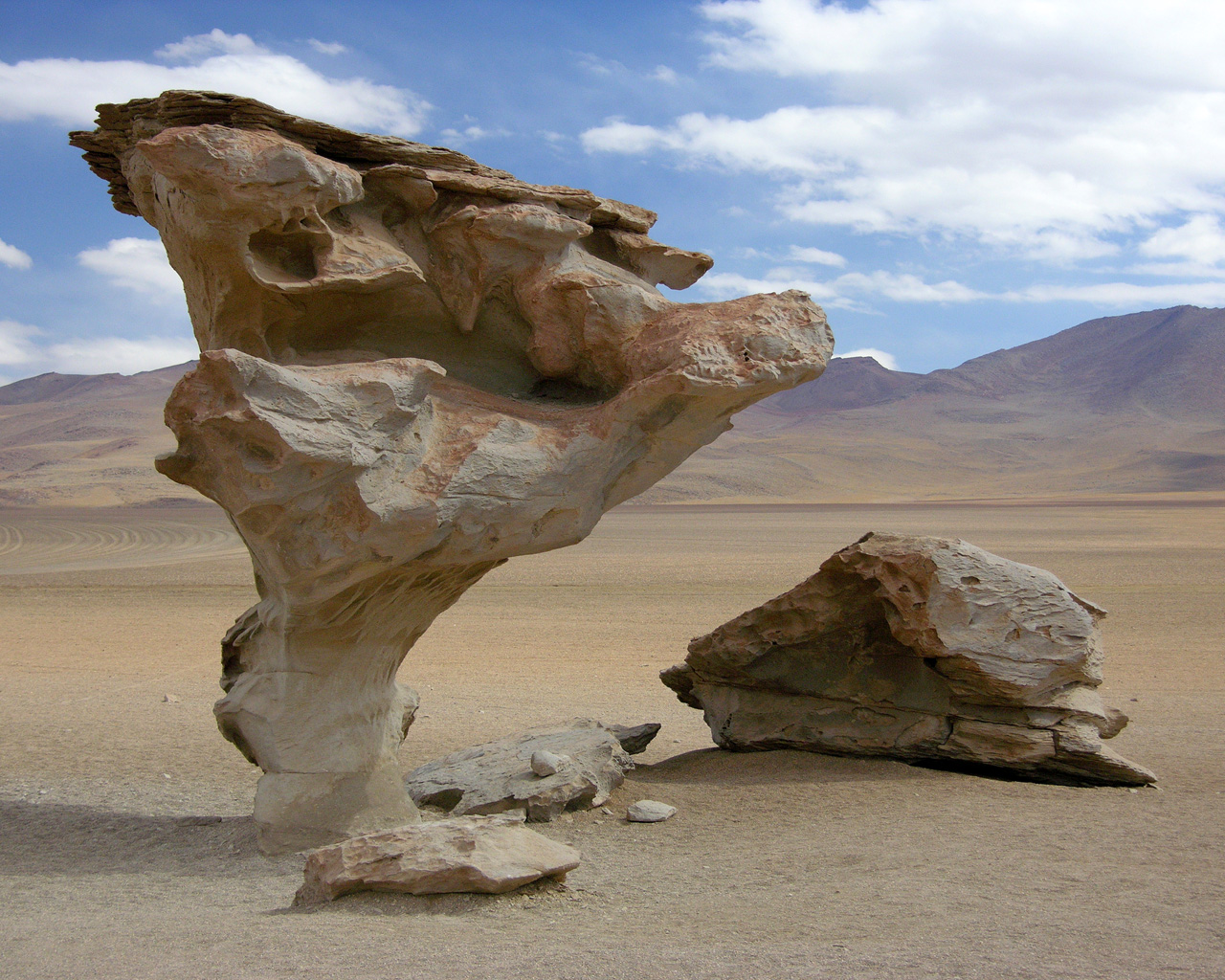 Árbol de Piedra ("stone tree"), an unusual rock formation carved by wind-blown sand, in Bolivia's Eduardo Avaroa Andean Fauna National Reserve. It is about 7 metres high. Description in